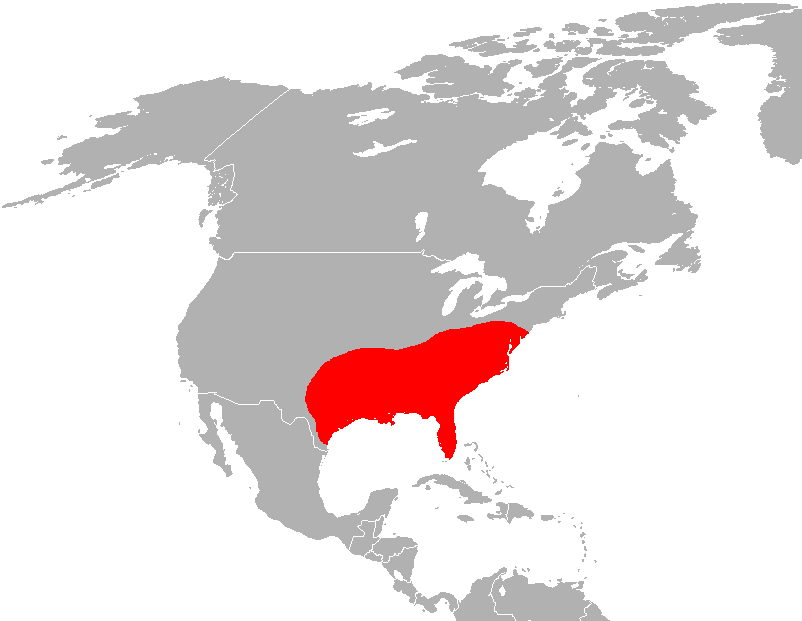 Distrubition map of the red wolf